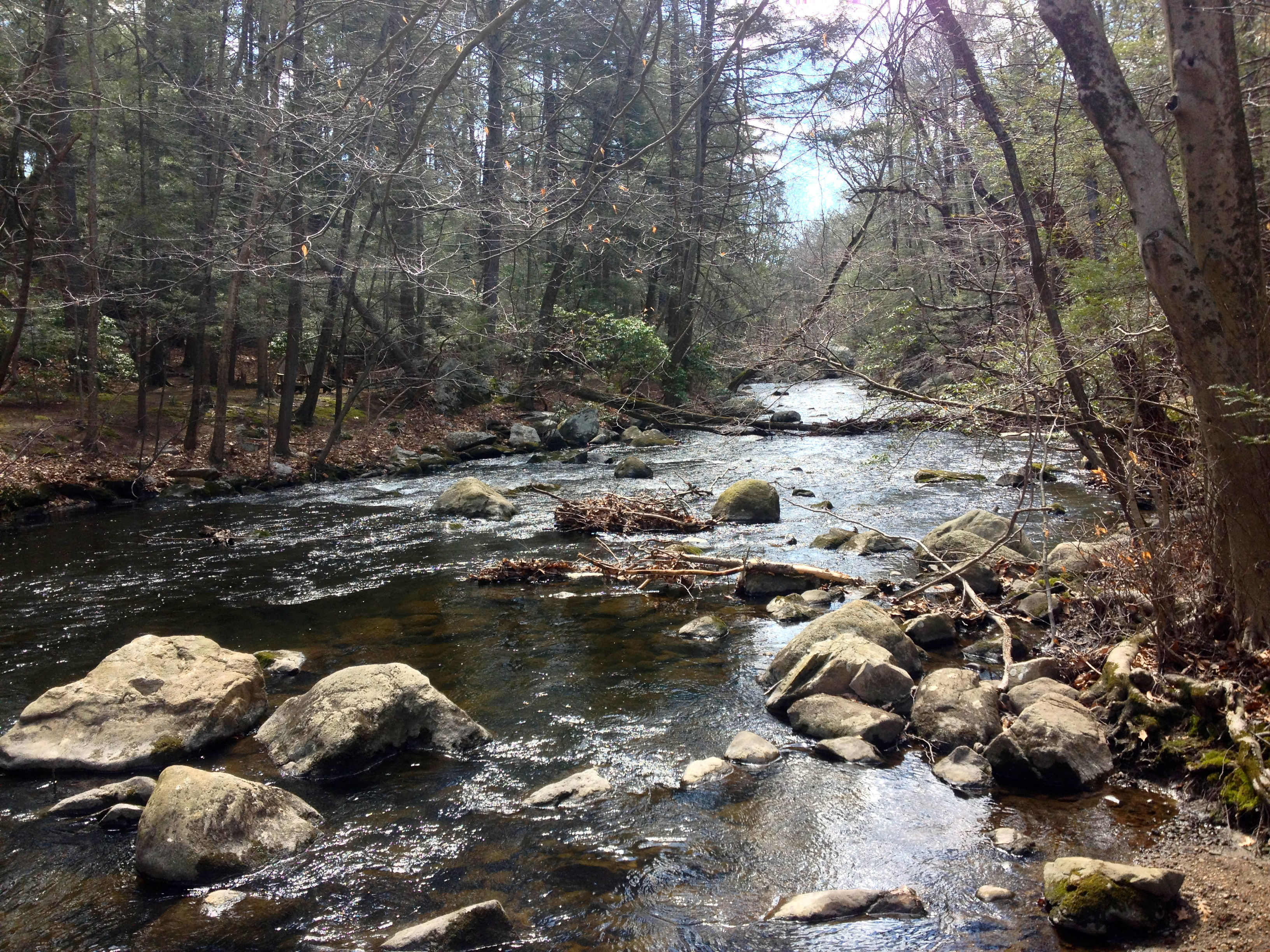 Mianus River Park - Mianus River from west river bank.